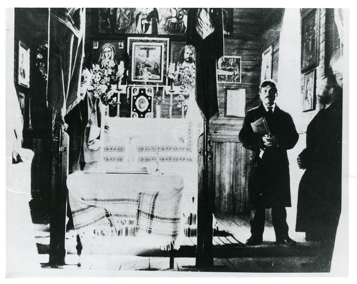 Interior altar in Tin Can Cathedral in Winnipeg with Cyril Genik in front of the altar